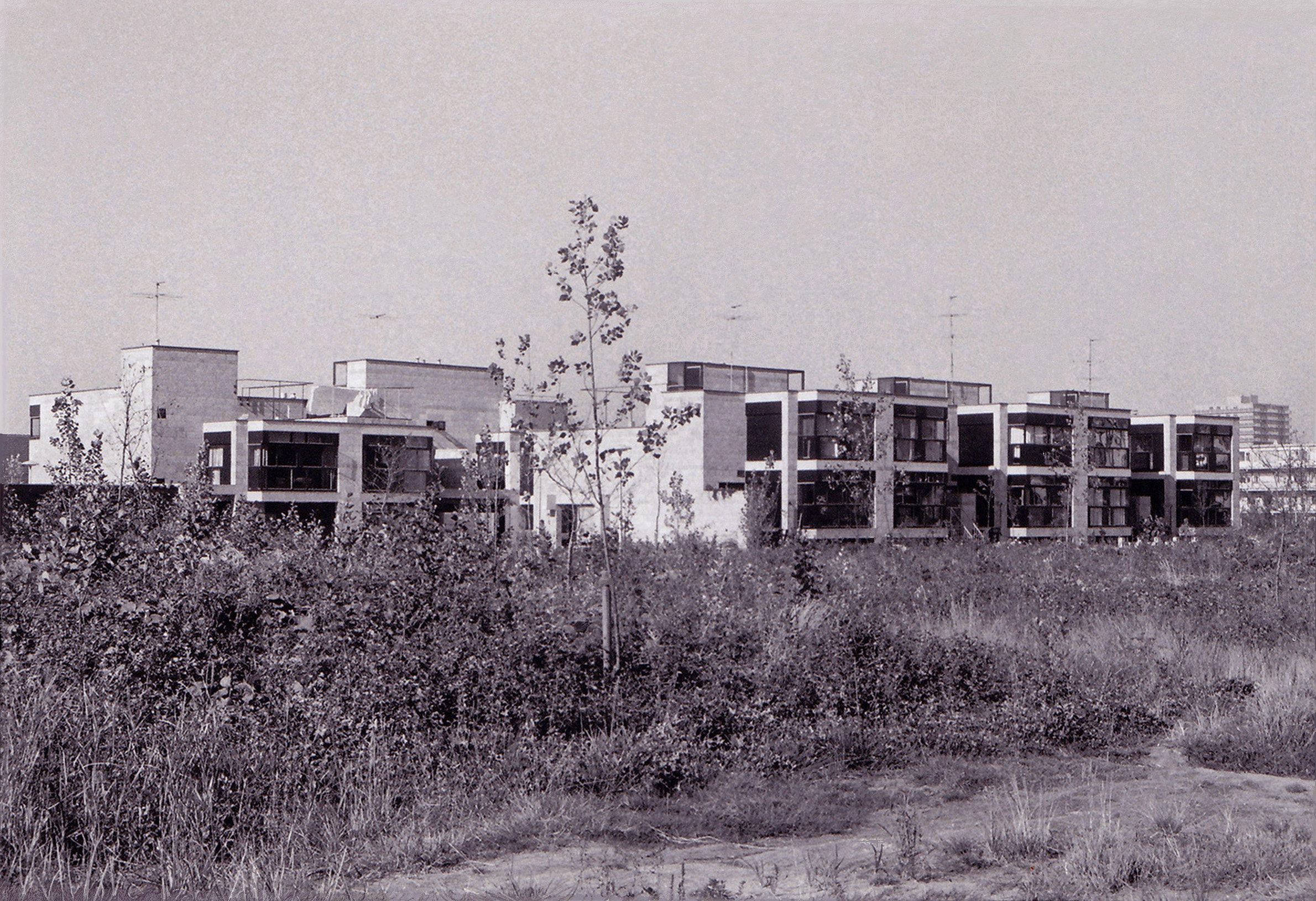 Diagoon Housing in Delft 1971 (Participation), arch. Herman Hertzberger